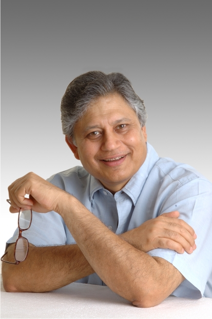 MR. SHIV KHERA "Winners don't do different things, they do things differently."